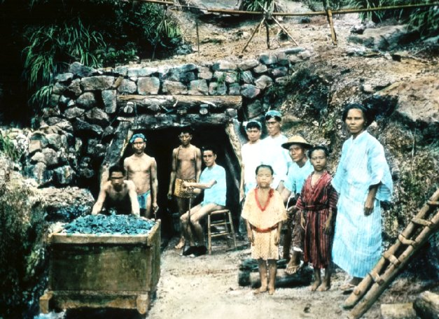 Entrance to Coal Mine in Yaeyama Islands